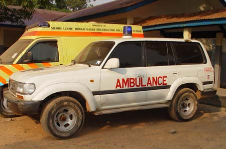 Ambulance outside Koidu hospital Sierra Leone